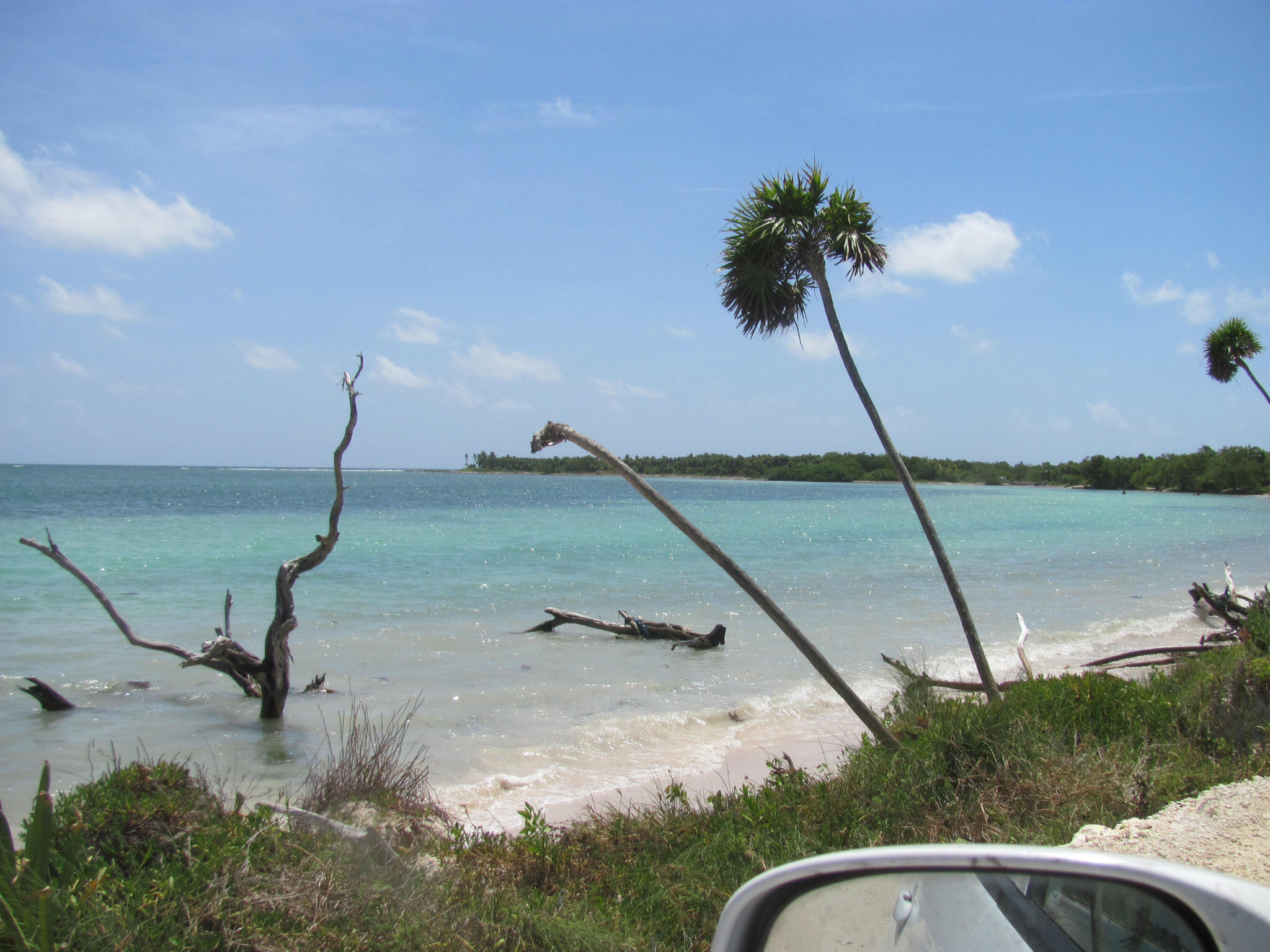 Road to Punta Allen